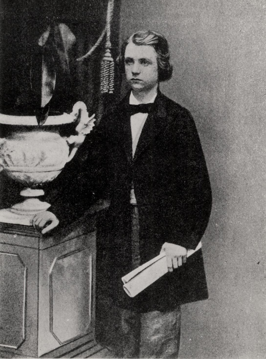 Artist: unknown Date/place: ca. 1859, Leipzig Subject: Edvard Grieg Medium: photographic positive, B&W Notes: none Persistent URL: [#//nettbiblioteket.no/grieg-samlingen/engelsk/grieg_intro_eng.html” Original belongs to the Edvard Grieg Archives at Bergen Public Library]